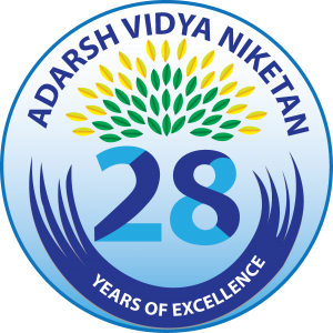 Logo of Adarsh Vidya Niketan